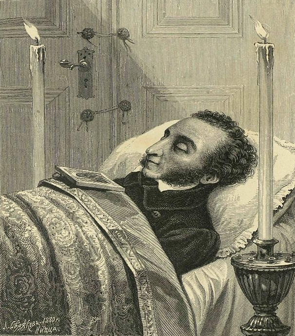 Alexander Pushkin